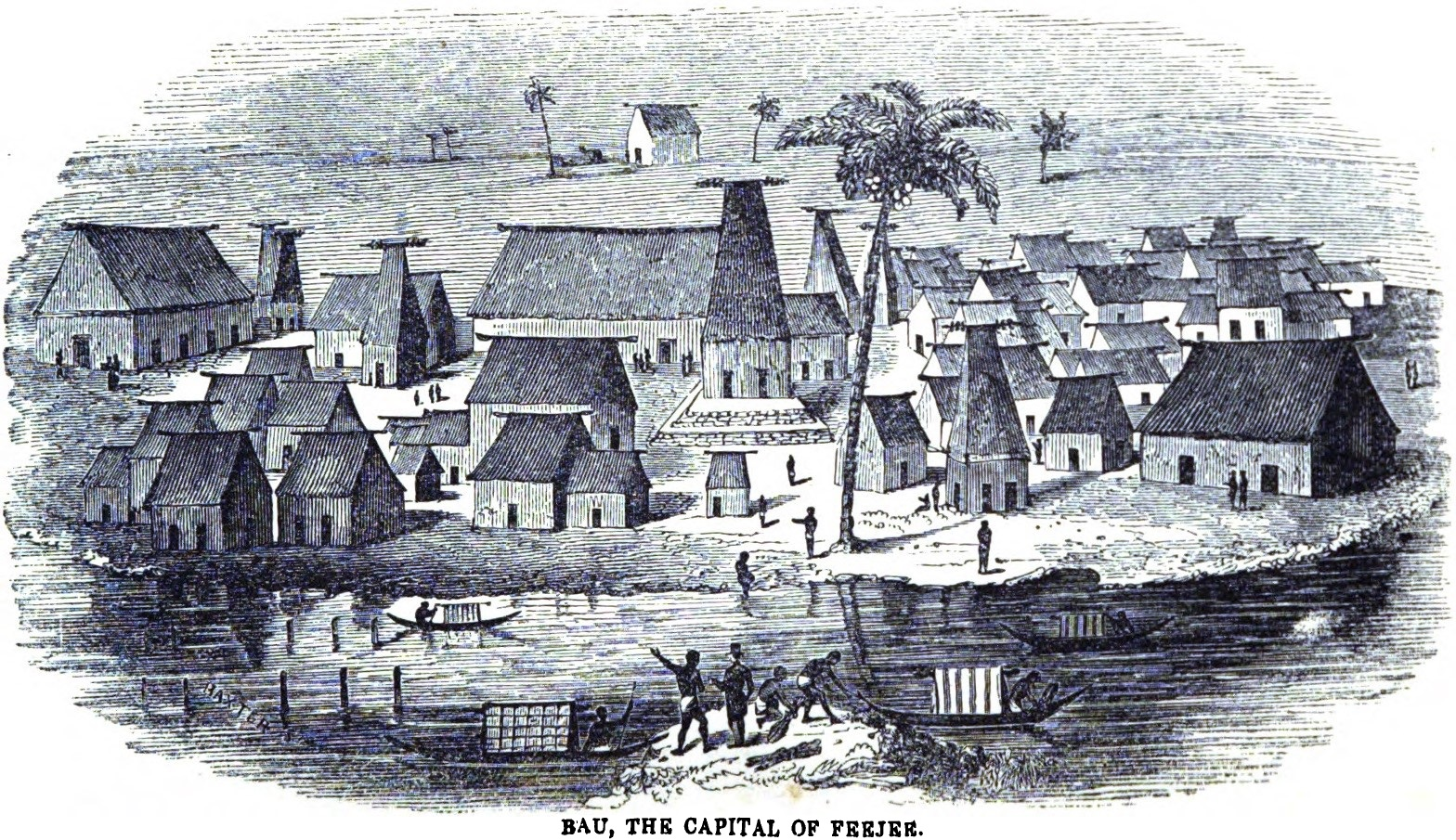 Bau, the capital of Feejee (November 1848, p.120, V)